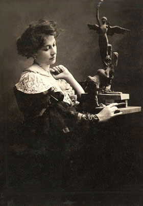 Portrait of Lola Mora, argentinian sculptress.